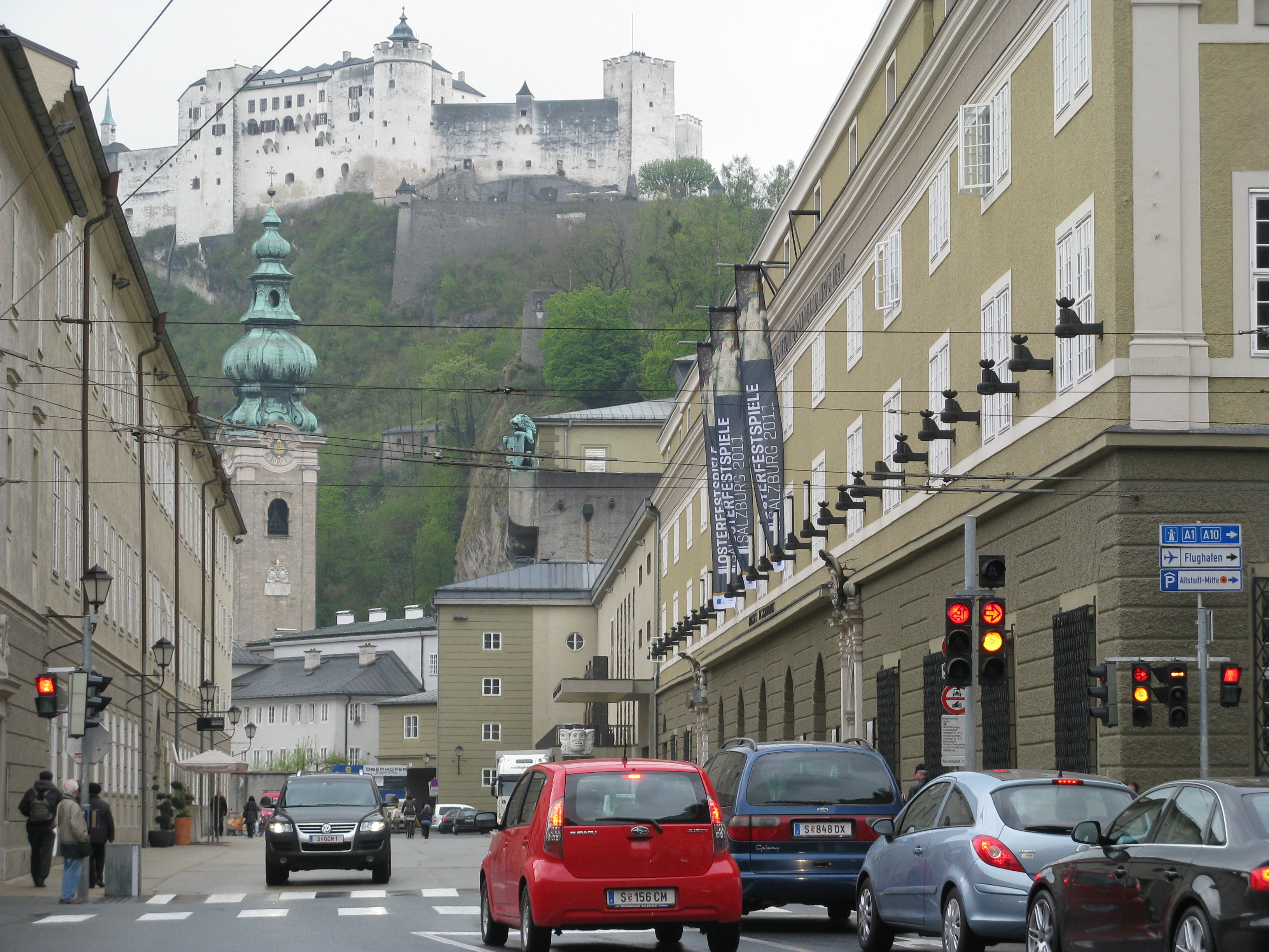 Austria, Salzburg, Großes Festspielhaus